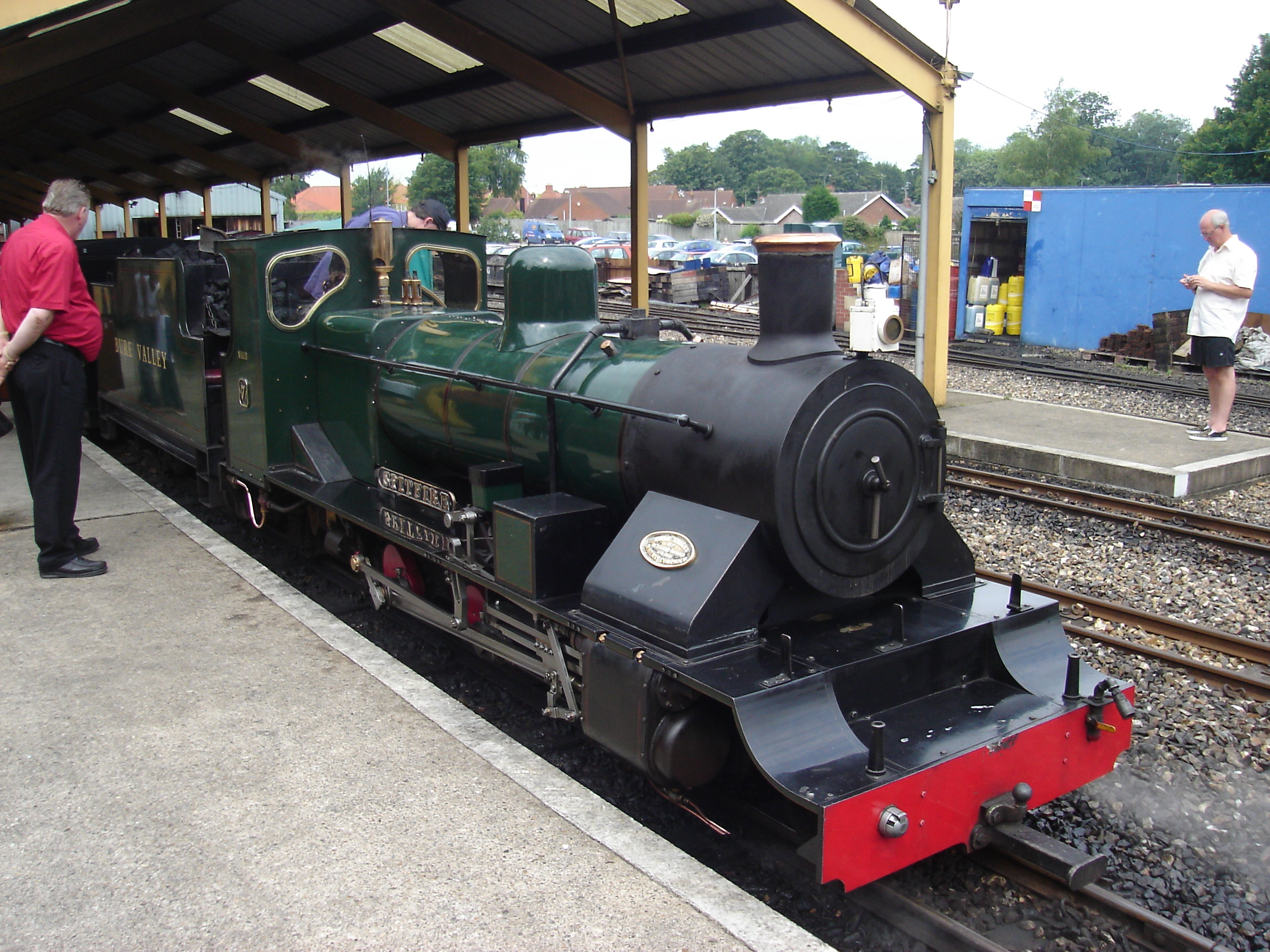 Photograph of locomotive Spitfire at Bure Valley Railway at Aylsham station, Norfolk